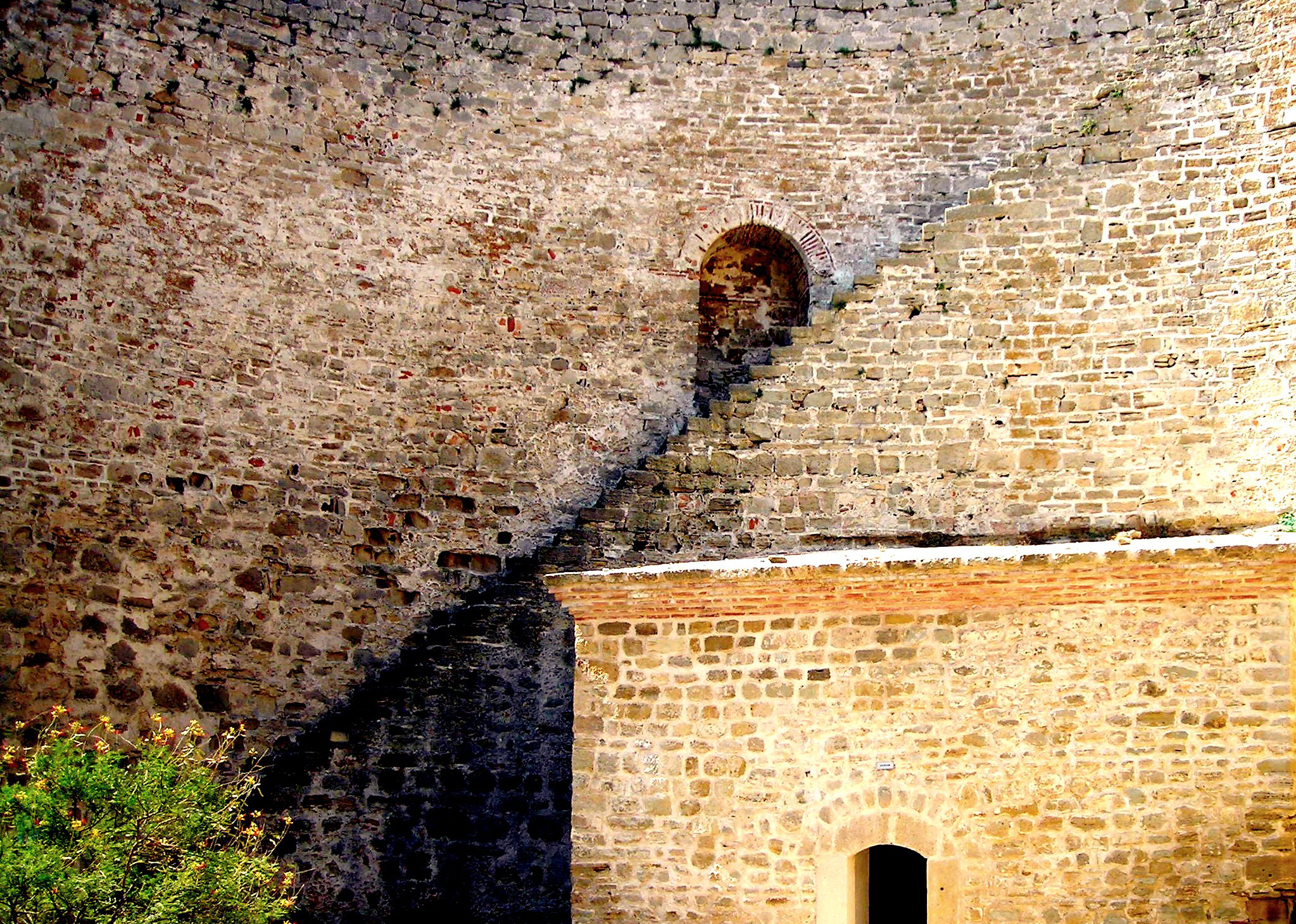 Inside Kilitbahir Castle, Gallipoli, Çanakkale